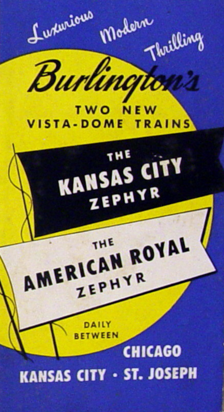 Brochure for the Burlington Kansas City and American Royal Zephyrs. Both trains covered the same route between Chicago and Kansas City and St. Joseph, with the Kansas City Zephyr operating by day and the American Royal Zephyr as an overnight train.